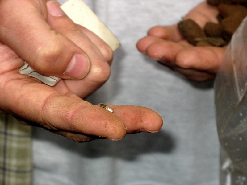 Lubieszewo, position 3, (Tunnehult) - Ducal tumulus. Archaeological investigations - 2006. Lubieszewo, administrative district Gryfice, Poland.